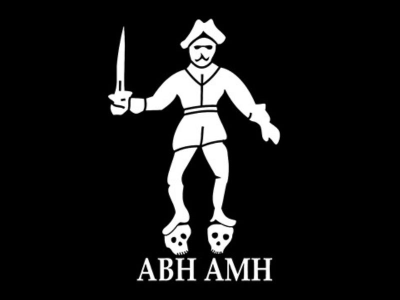 Bartholomew Roberts' pirate flag depicting a pirate standing on two skulls labeled "ABH" and "AMH" for "A Barbadian's Head" and "A Martinican's Head", after Governors of those two islands sent warships to capture Roberts.